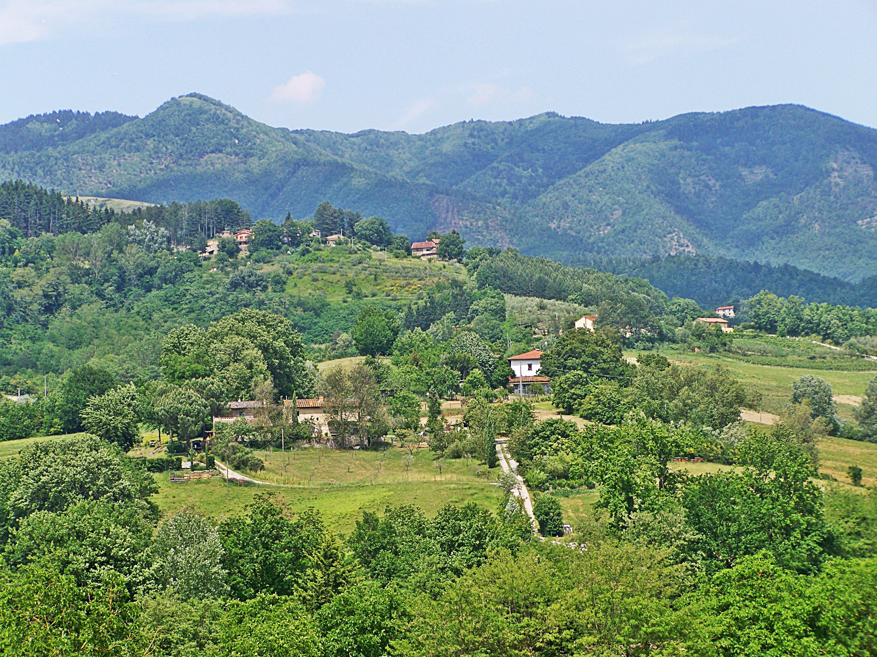 landscape